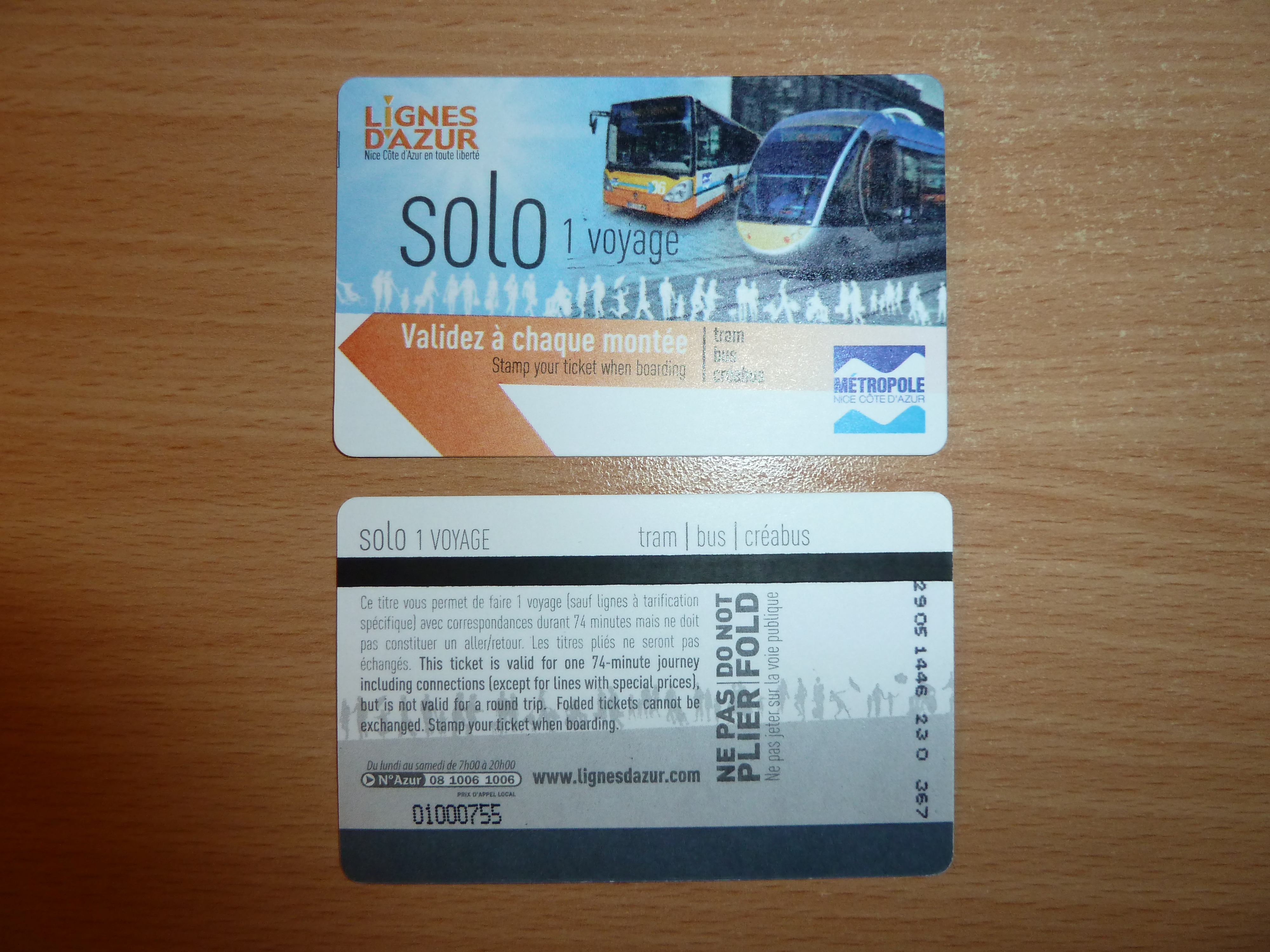 Bus ticket of network Lignes d'Azur of the metropol of Nice Côte d'Azur